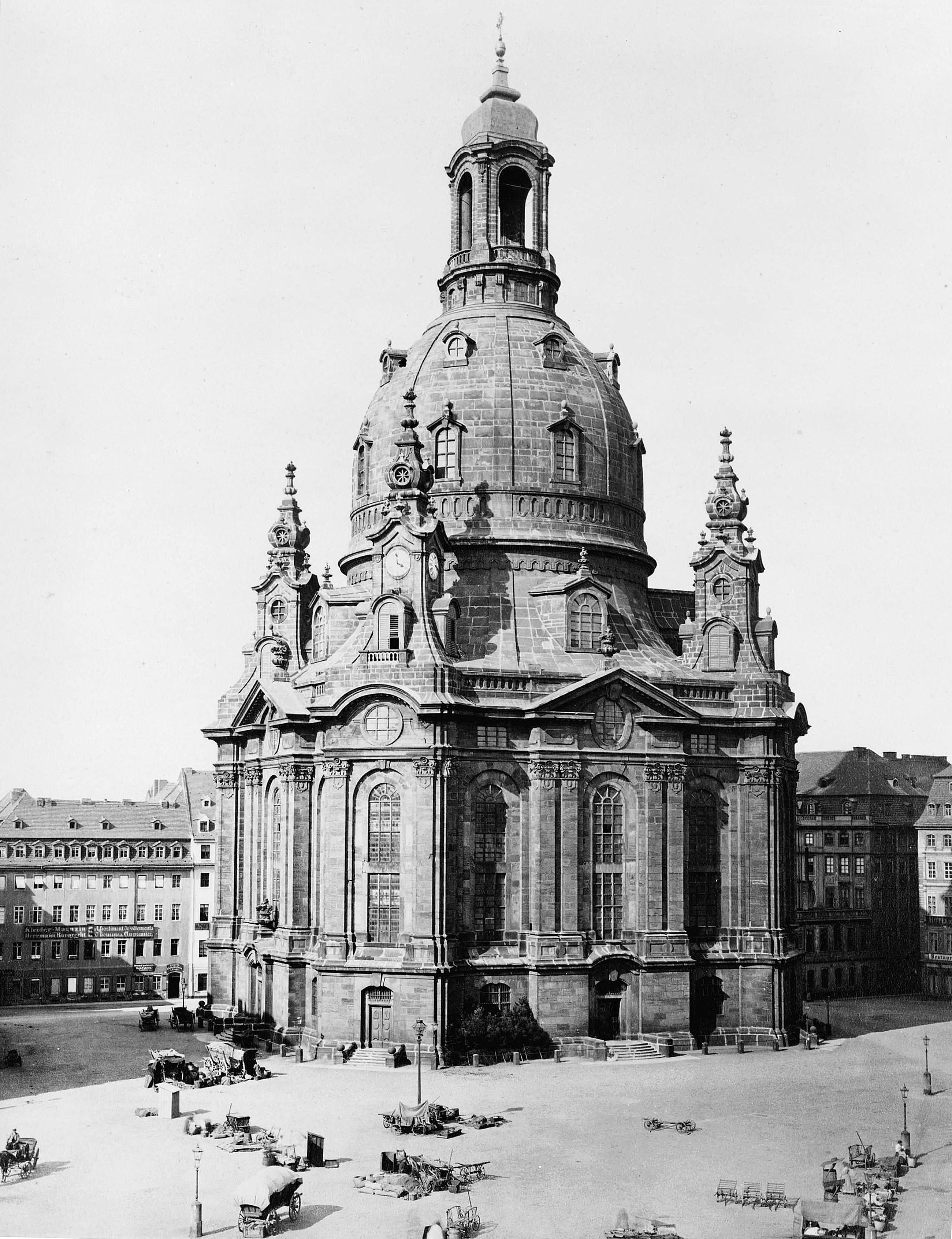 Dresden, Germany, Frauenkirche, between 1860 and 1890